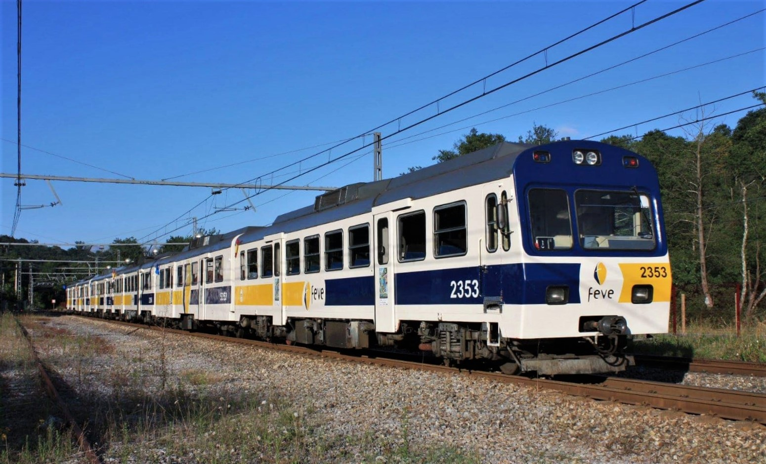 The two Class 2350 DMUs of the FEVE circulating coupled to Arriondas, as it passes through Carancos, to participate in the Piraguas Train, to follow the Sella International Descent competition.